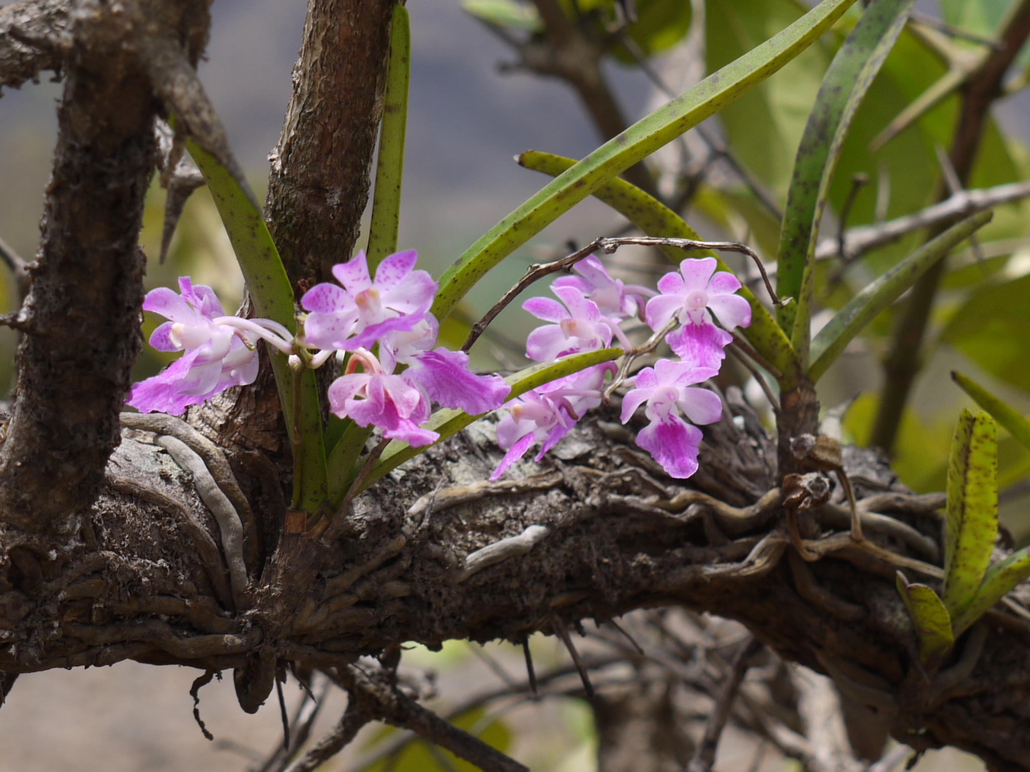 Orchidaceae (orchid family) » Aerides maculosa Lindl. AIR-i-deez -- from the Greek word aer (air, wind); refers to the plant's epiphytic habit ... Dave's Botanary mak-yoo-LOH-suh -- spotted ... Dave's Botanary commonly known as: cat's-tail orchid, fox brush orchid, spotted aerides • Marathi: ठिपके ईरीड अमरी thipke irid amri Native to: s China, Indian subcontinent, Indo-China, Malesia, Philippines, New Guinea References: Flowers of India • WGBIS • Flowers of Sahyadri by Shrikant Ingalhalikar